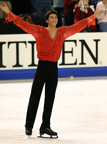 Summary Evan Lysacek competes his free program at the 2004 Four Continents Championships in Hamilton, Ontario, Canada. author: vesperholly